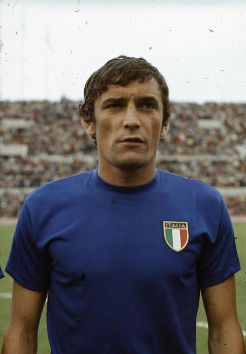 Italian footballer Luigi "Gigi" Riva in 1968 at the Olympic Stadium in Rome.